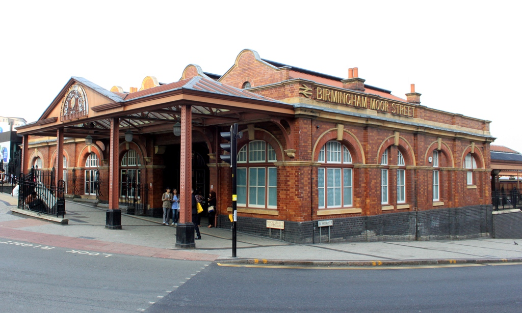 The exterior of Moor Street railway station in Birmingham, England.